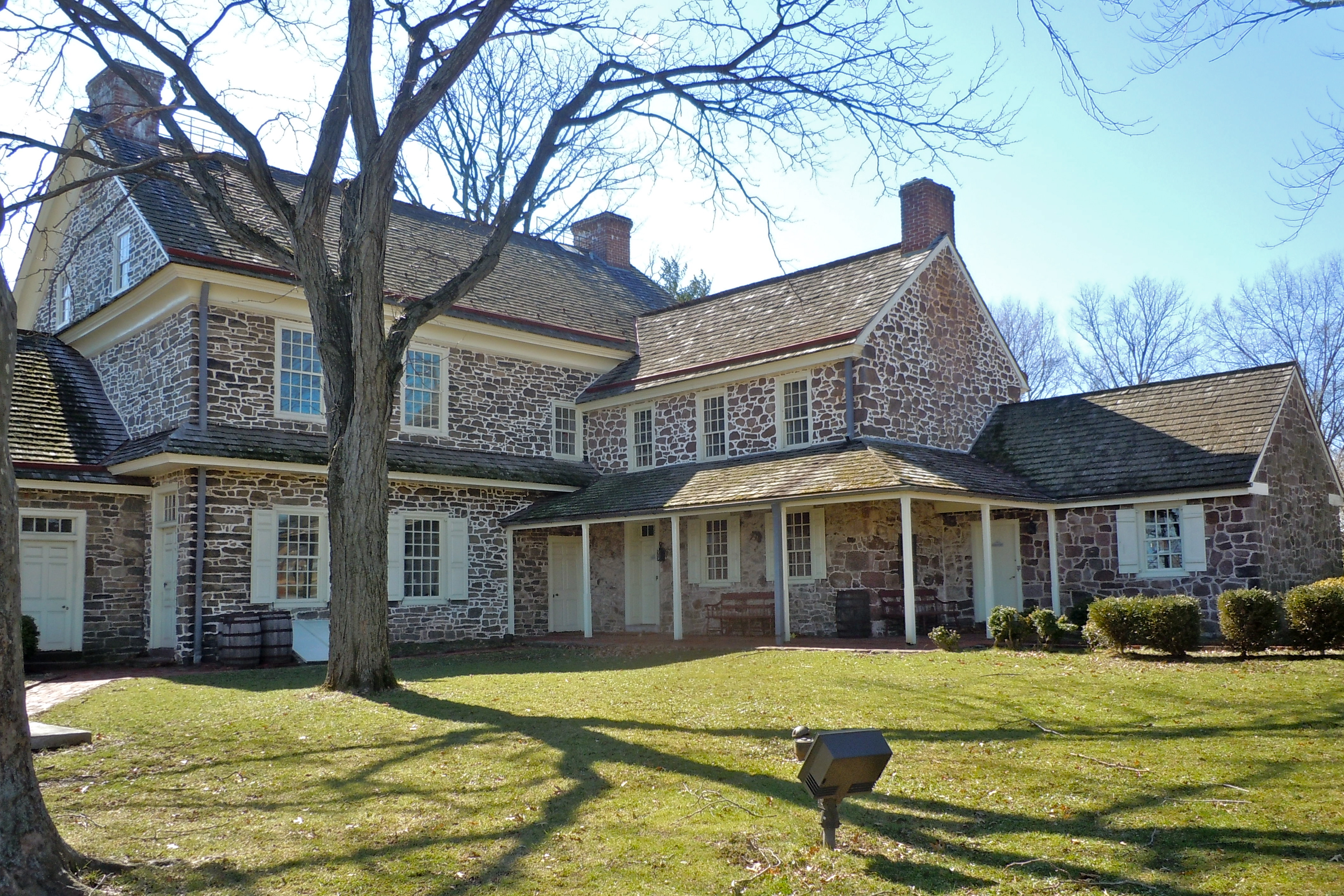 Pottsgrove Mansion on the NRHP since January 18, 1974. West of Pottstown on Benjamin Franklin Highway (High Street), Pottstown, Montgomery County, Pennsylvania. 1st house in town.